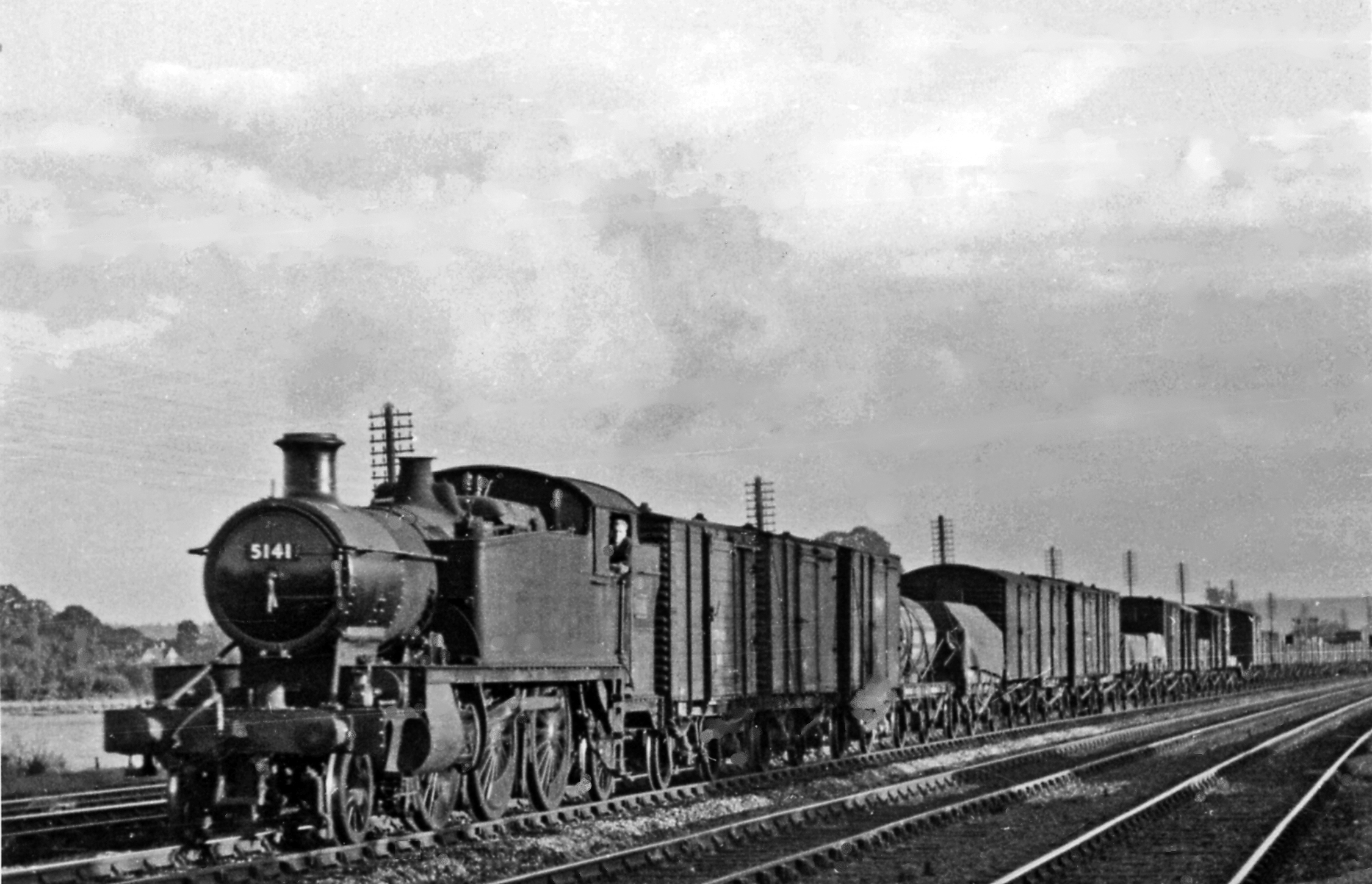 Down (northbound) WR freight at Naas Crossing, Haresfield. View southward on four-track joint ex-GW and ex-Midland main lines south of Gloucester, between Tuffley and Standish Junctions - see other images here for details. The long Class J freight is headed by ex-GW Churchward '5100' class 2-6-2T No. 5141 (built 3/06 as No. 3141, renumbered 1/29, withdrawn 10/52)